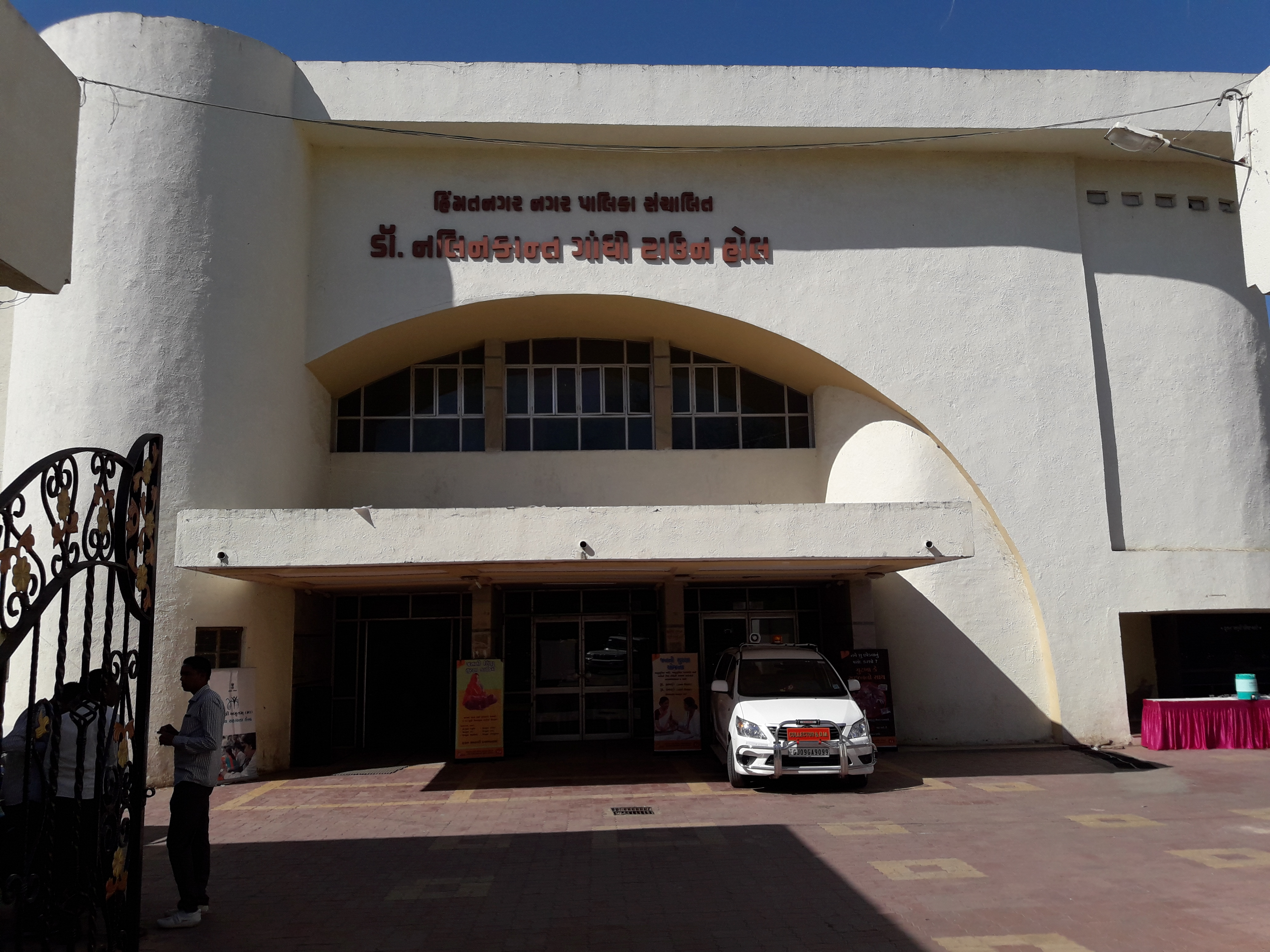 Dr. Nalinkant Gandhi Townhall at Himmatnagar, Gujarat, India.